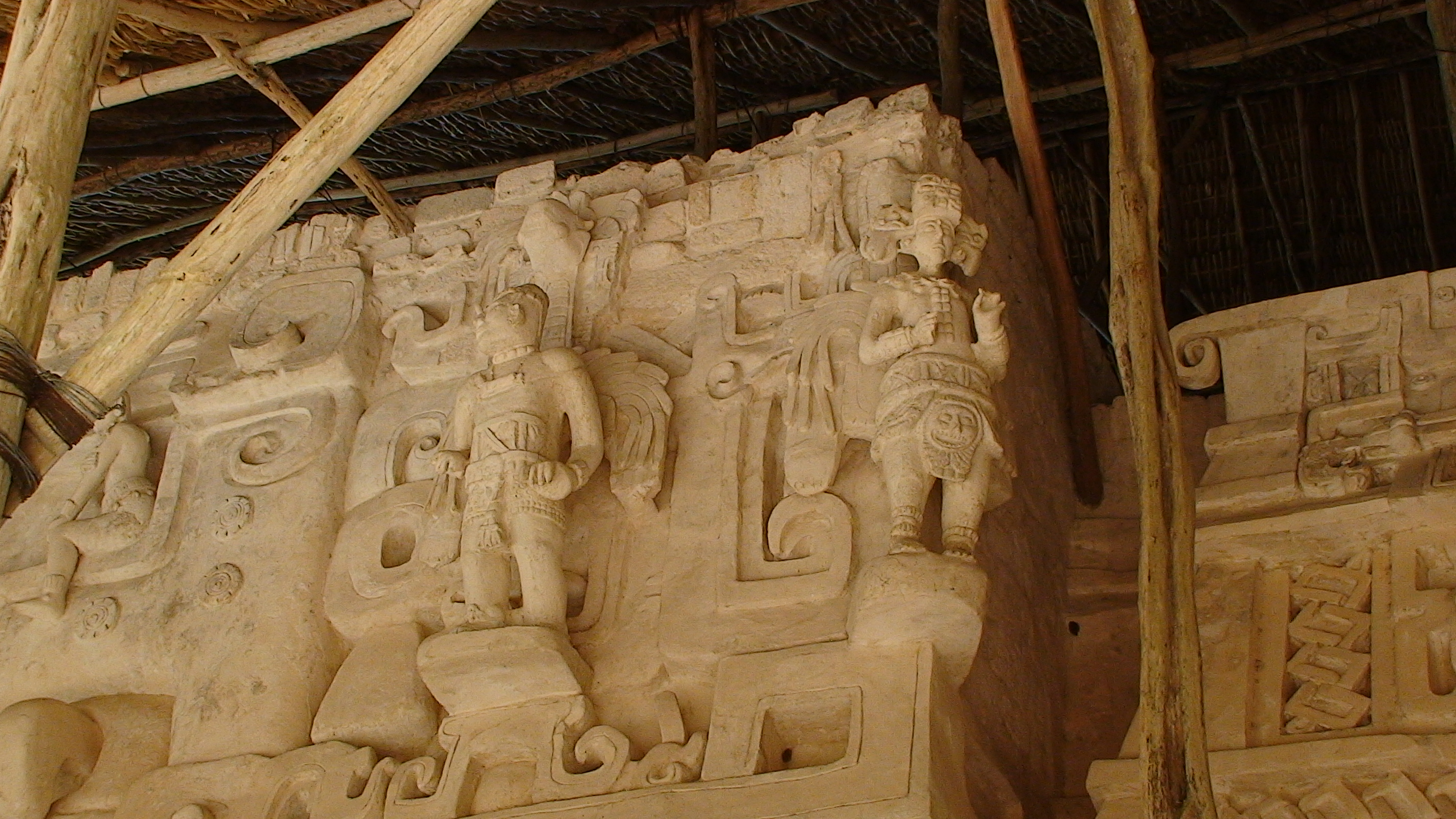 Ek Balam, Yucatan, Mexico: Stucco facade